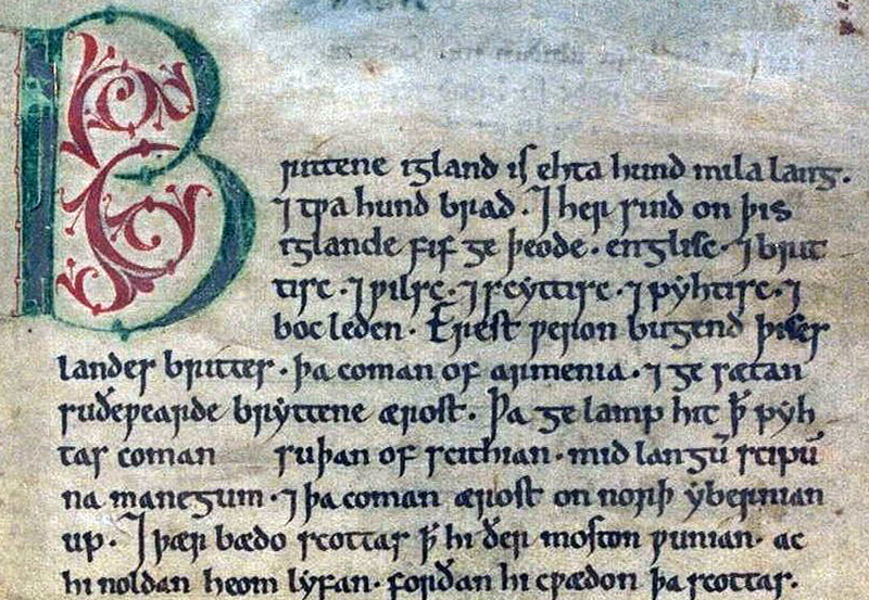 The initial page of the Peterborough Chronicle, marked secondarily by the librarian of the Laud collection. The manuscript is an autograph of the monastic scribes of Peterborough. The opening sections were likely scribed around 1150. The section displayed is prior to the First Continuation.